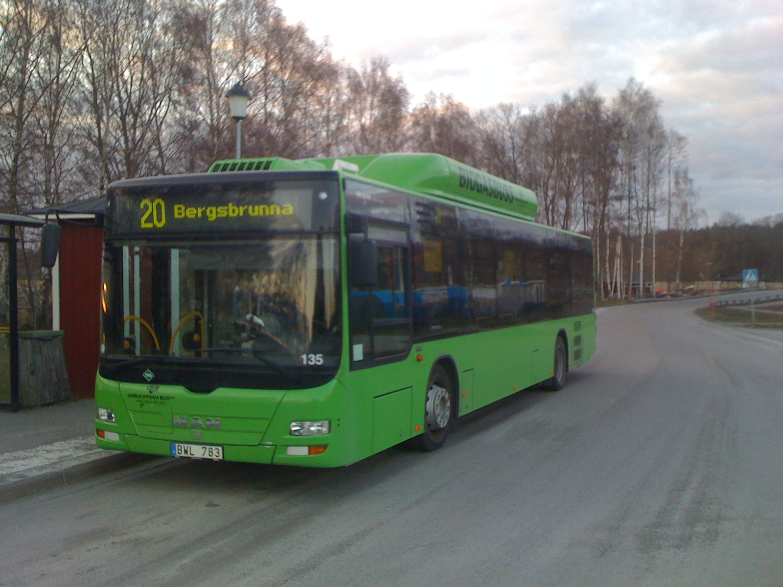 A MAN Lion's City A21 CNG bus in the Sunnersta neighborhood in Uppsala, Sweden.